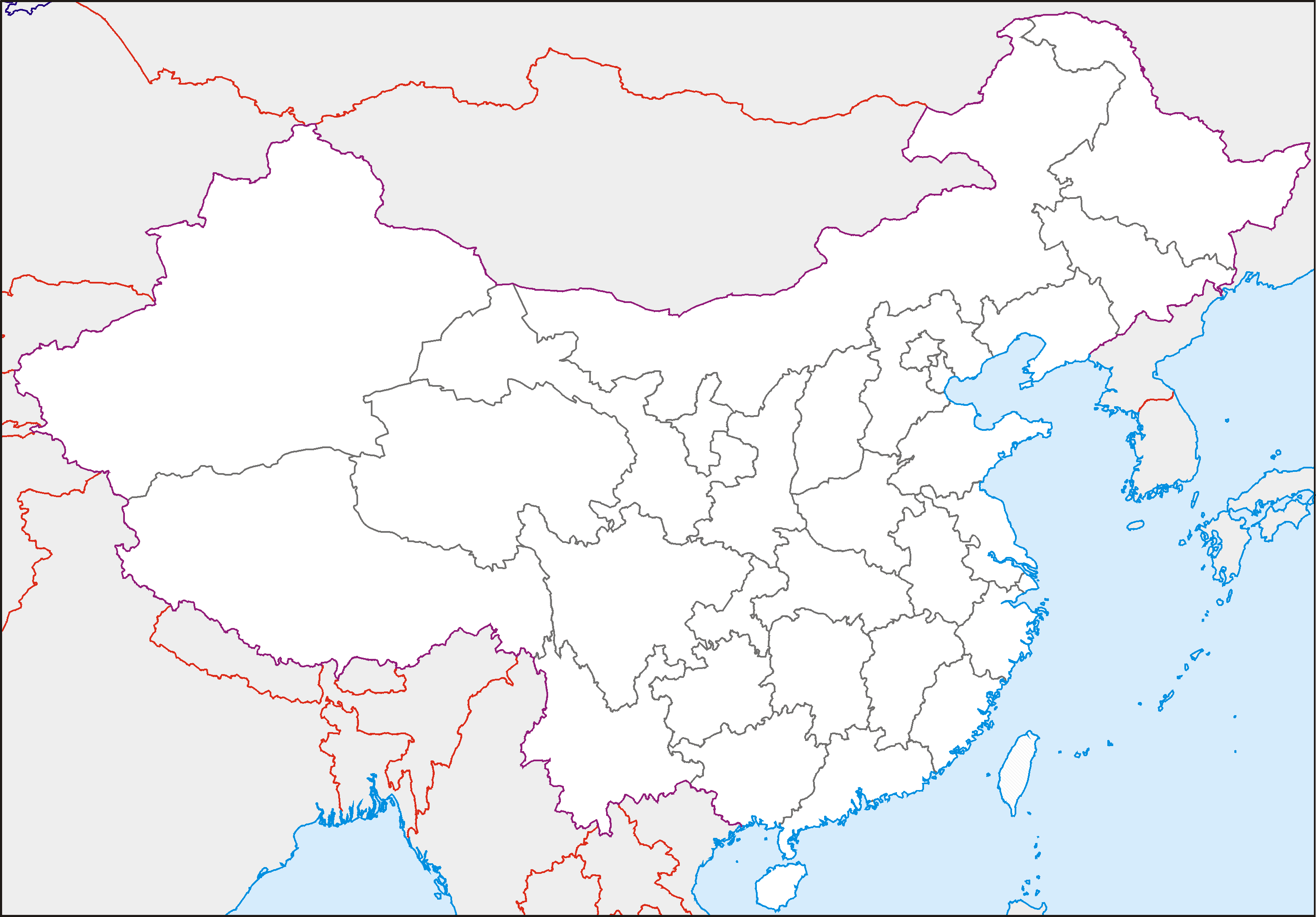 for Template:Location map